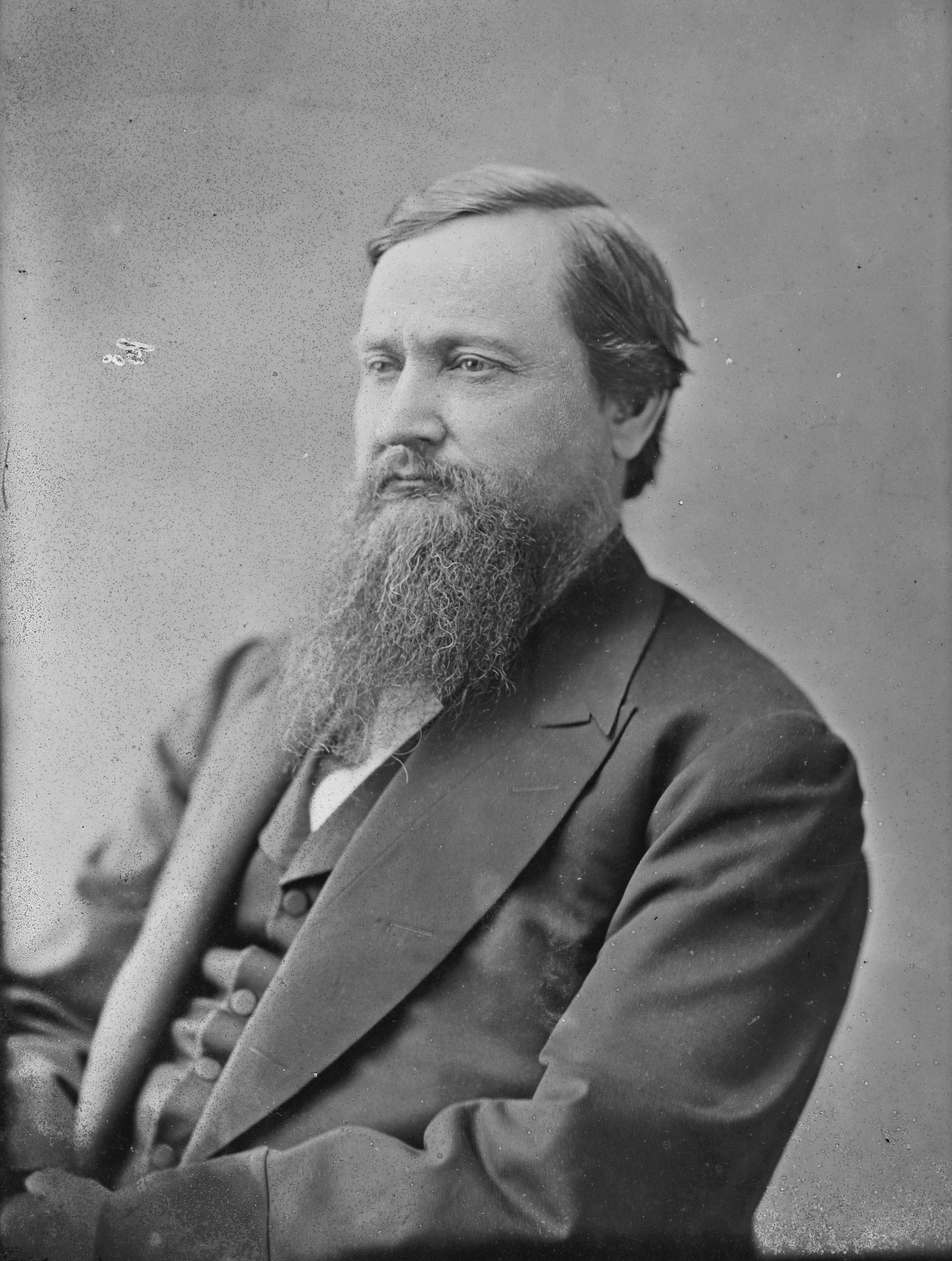 Mark Dunnell. Library of Congress description: "Dunnell, Hon. M. H. of Minn."